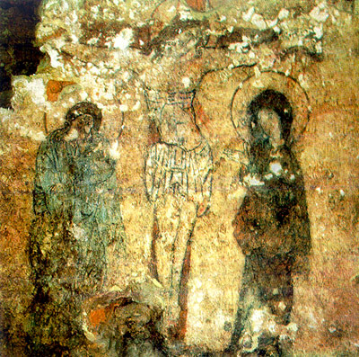 Fresco in Vilnius Cathedral crypt. 14 century, author unknown. Fresco portraying crucified Jesus with St. Mary and St. John